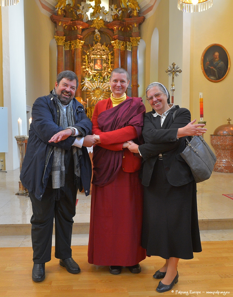 Chöje Lama Palmo in interreligious exchange, Purkersdorf, Austria, 2015. Chöje Lama Palmo is involved in the interreligious exchange for a better getting to know and acceptance of religions and their teachings for more harmony and peace in the world.